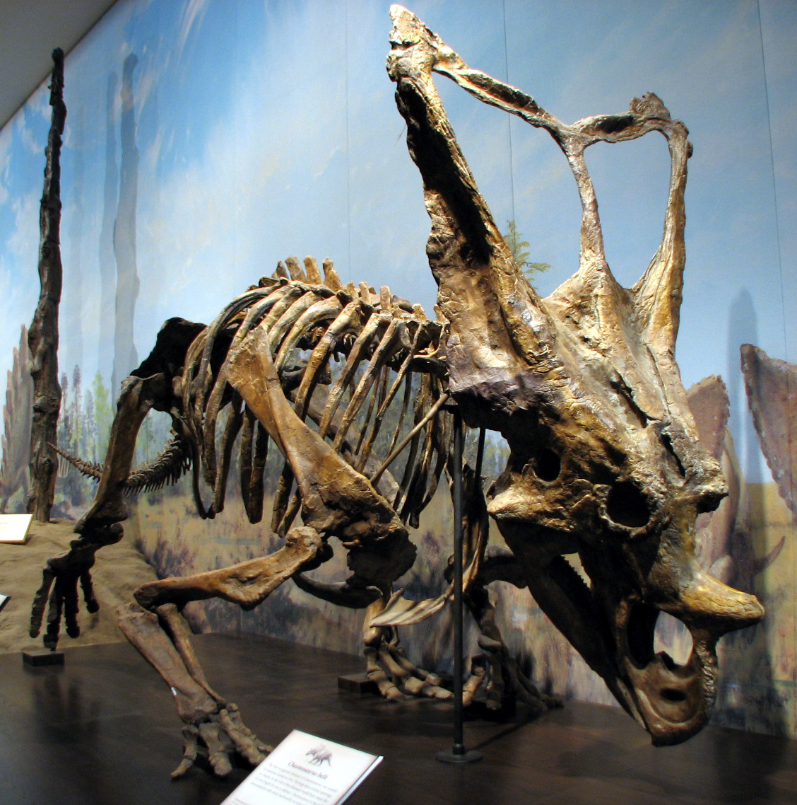 Chasmosaurus belli ROM 843, Royal Tyrrell Museum of Paleontology. Late Cretaceous 75-74.5 millions years ago. Found at Dinosaur Provincial Park, Alberta, and prepared at the Royal Tyrrell Museum of Paleontology, Drumheller, Alberta.